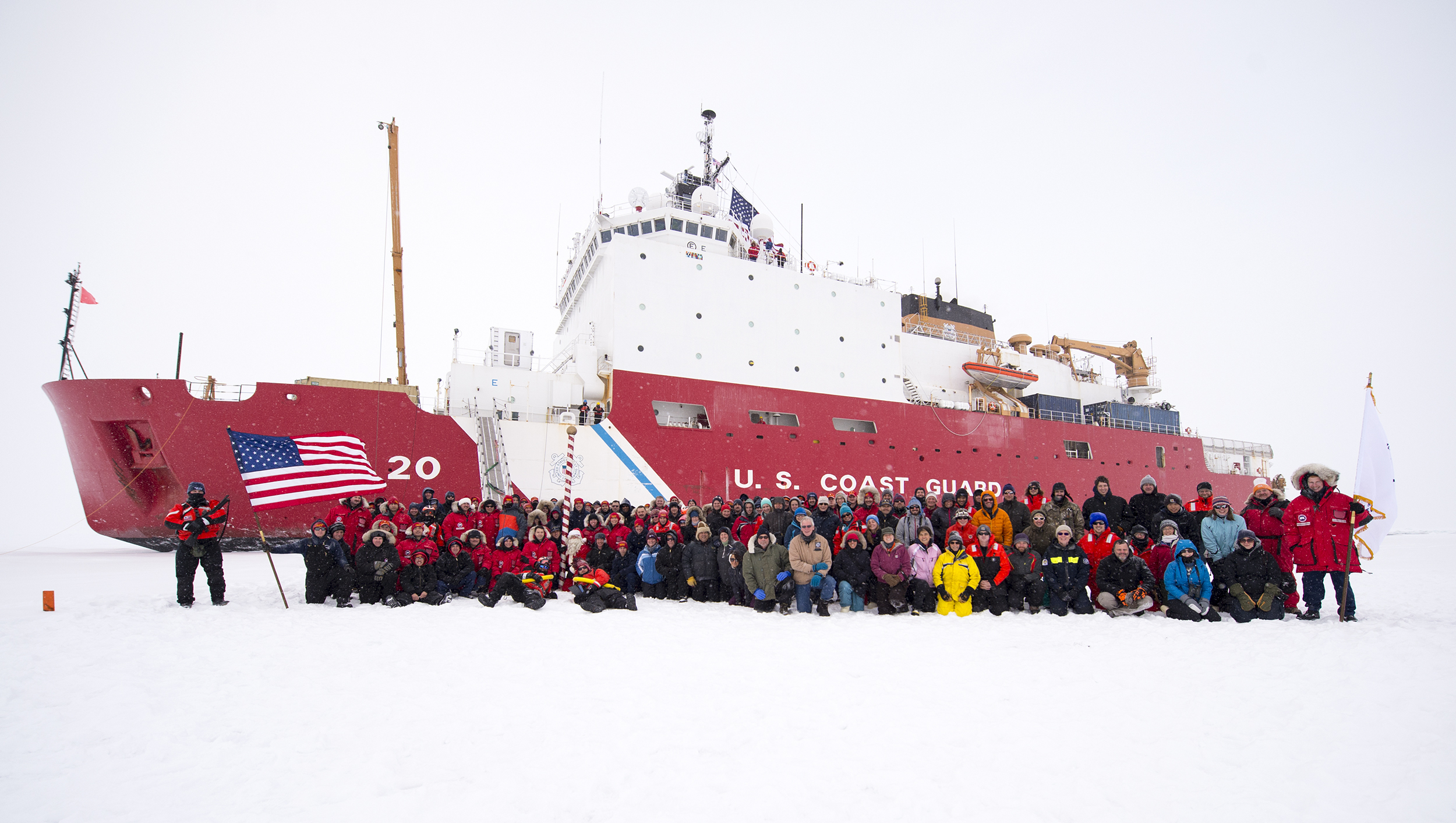 The crew of U.S. Coast Guard Cutter Healy and the Geotraces science team have their portrait taken at the North Pole Sept. 7, 2015. Healy reached the pole on Sept. 5, becoming the first U.S. surface vessel to do so unaccompanied. Healy is underway in support of Geotraces, an international scientific endeavor to study the geochemistry of the world’s oceans. (U.S. Coast Guard photo by Petty Officer 2nd Class Cory J. Mendenhall)